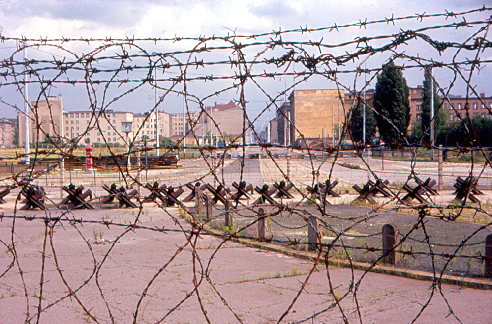 "Der Sozialismus Siegt" (socialism is victorious) is one of the slogans that the East German regime used. The tour bus left East Berlin, and the sun came out. The last stop was a place where you could climb up steps and look over the wall into East Berlin. This looks toward Potsdamer Platz, which had been one of busiest places in Berlin in the 1920s and 1930s. In 1963, with the Wall, nothing but empty spaces and tank traps. I took a photo over the barbed wine, then tried a shot through the barbed wire. This is the result. It is my favorite Berlin Wall photo.